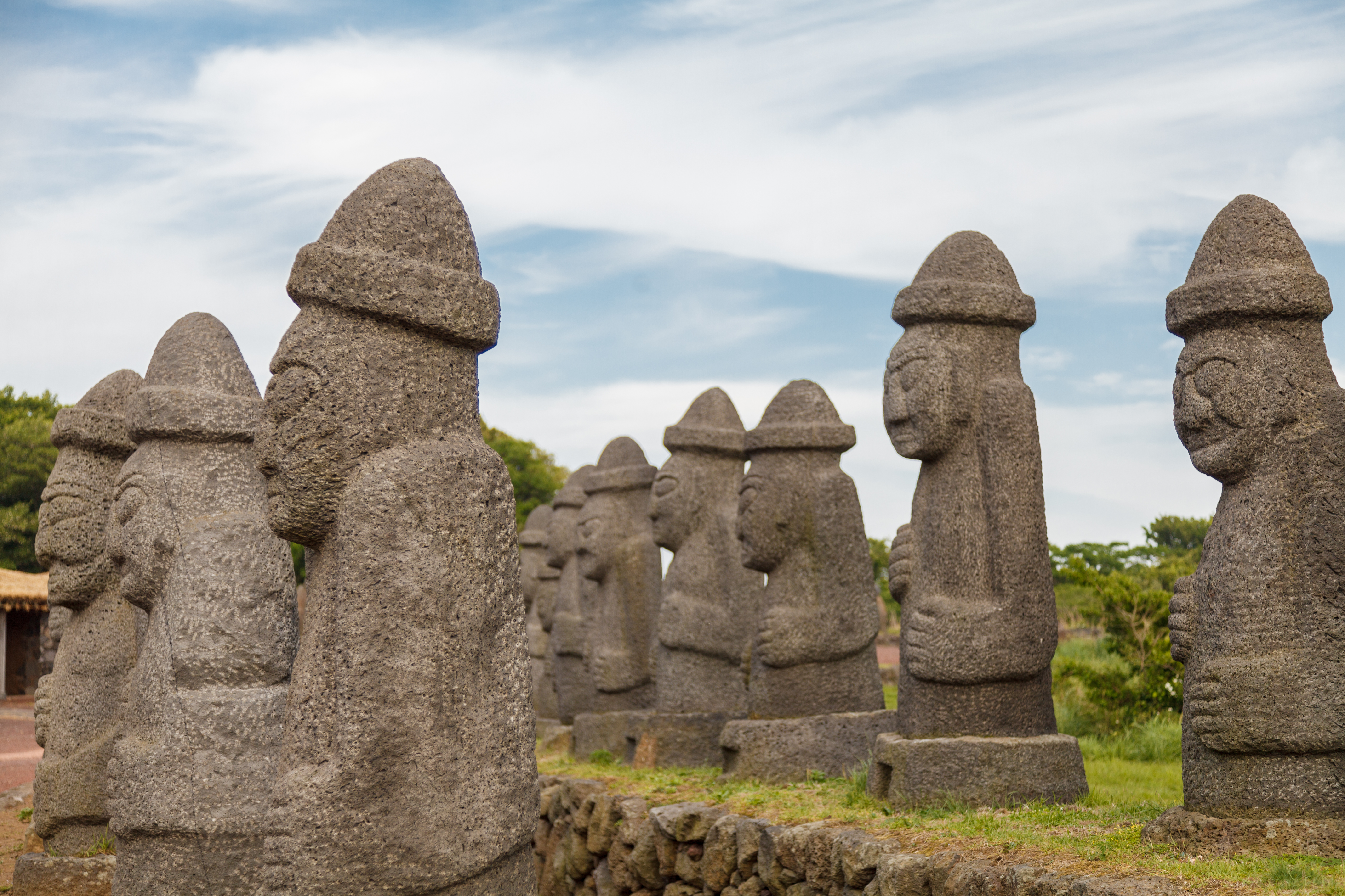 Dol hareubangs on Jeju island.